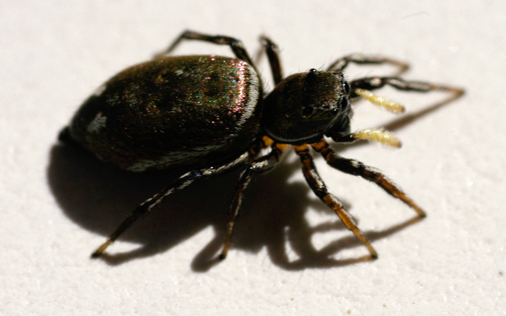 Heliophanus on white background